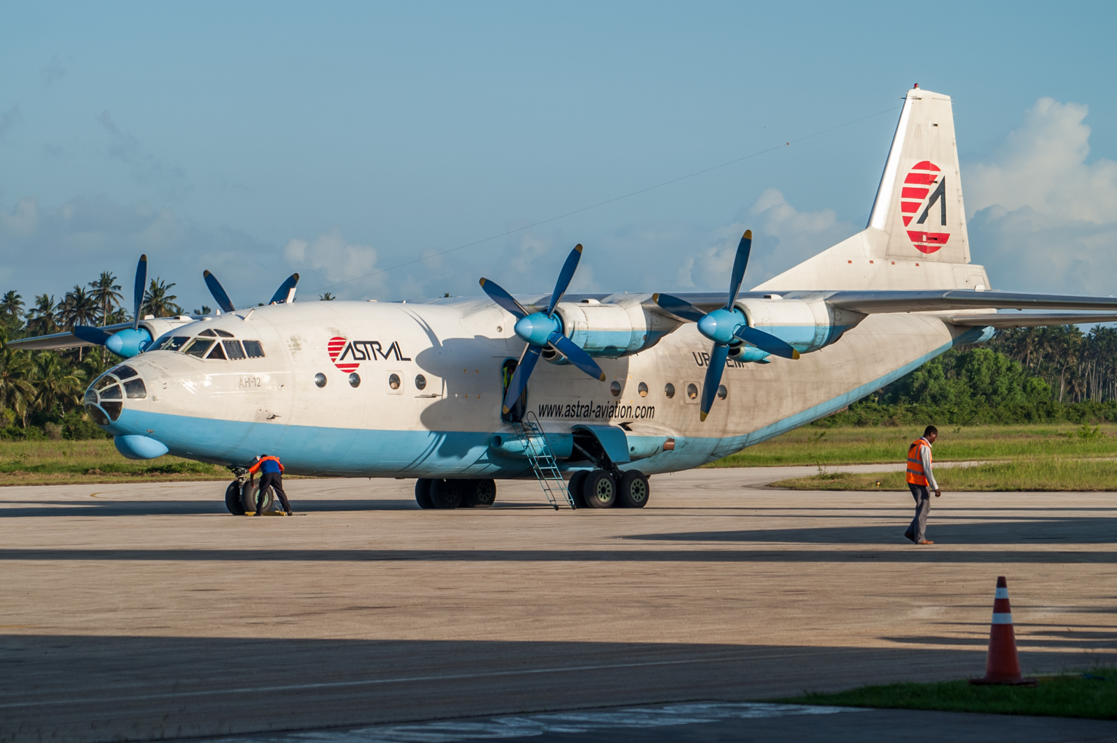 An Astral Aviation Antonov AN-12 at Dar Es Salaam Airport in 2006